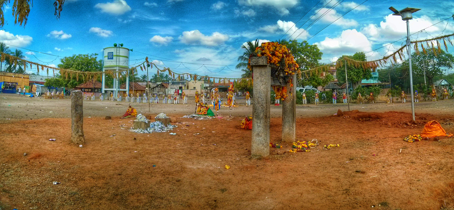 Picture of a deity that presents in front of the village courtyard.